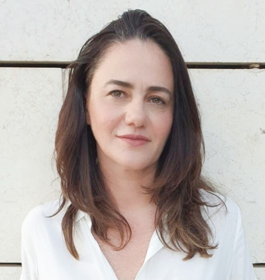 Asya Rolls PhD Associate Prof. Technion. Asya Rolls is an Israeli psychoneuroimmunologist and International Howard Hughes Medical Institute Investigator and an Associate Professor at the Immunology and Center of Neuroscience at Technion within the Israel Institute of Technology.